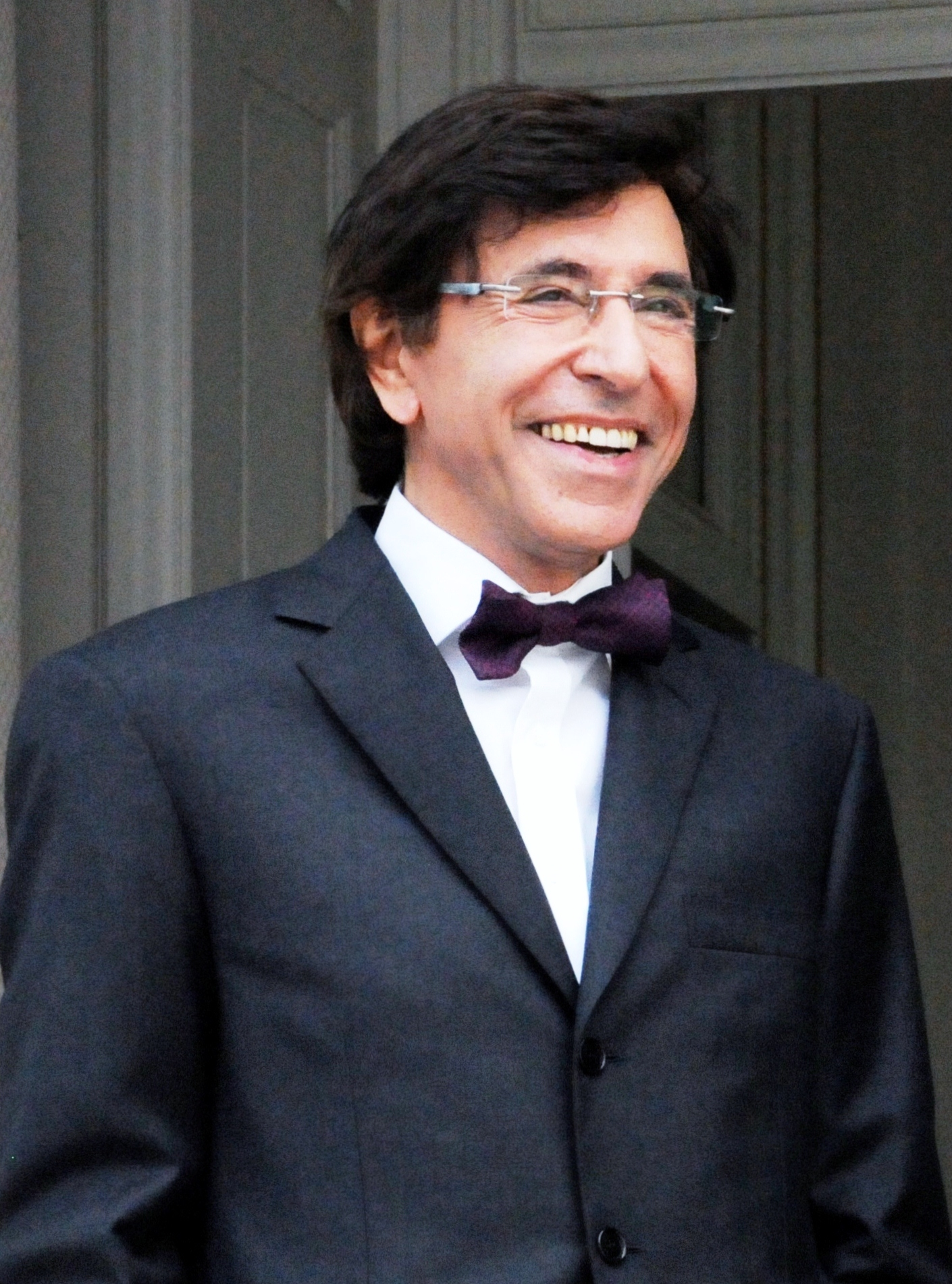 Belgian Prime Minister Elio Di Rupo, April 18, 2012. [State Department photo/ Public Domain]